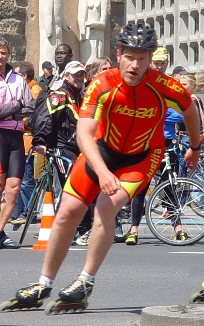 René Schöfisch at the inline speedskating team parasite race, Berlin, Germany.